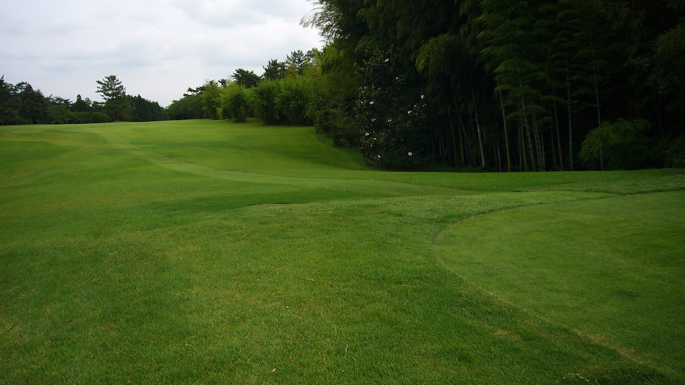 Ono Golf Club in Ono, Japan